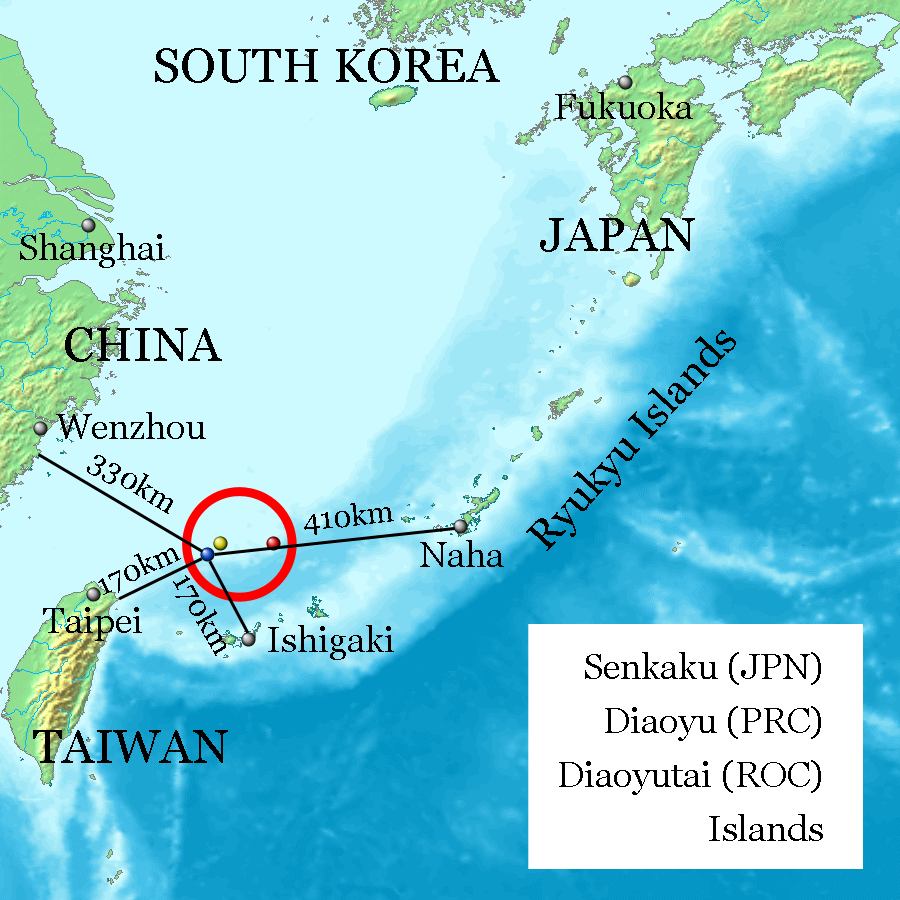 Uotsuri-shima / Diaoyu Dao (Blue, west end and nearly south end, 25°44′33″N 123°28′17″E at Mount Narahara), Kuba-shima / Huangwei Yu (Yellow, north end, 25°55′24″N 123°40′51″E at Mount Chitose), Taishō-tō / Chiwei Yu (Red, east end, 25°55′21″N 124°33′36″E at the peek) referenced on Geospatial Information Authority of Japan and distances referenced on Ministry of Foreign Affairs of Japan. Every distances of the map show coast to coast, but distances of the coast of Okinawa Island and Naha City, and the coast of Ishigaki-Island and Ishigaki City are quite near on the map.